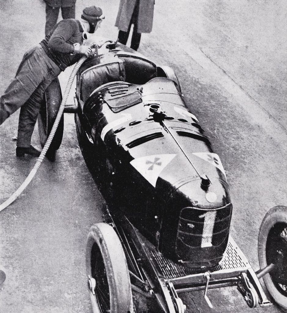 Fueling entry #1 at Monza for the Italian GP on 19 October 1924, driven by WINNER Antonio Ascari, and the person in this picture looks like him, as well.